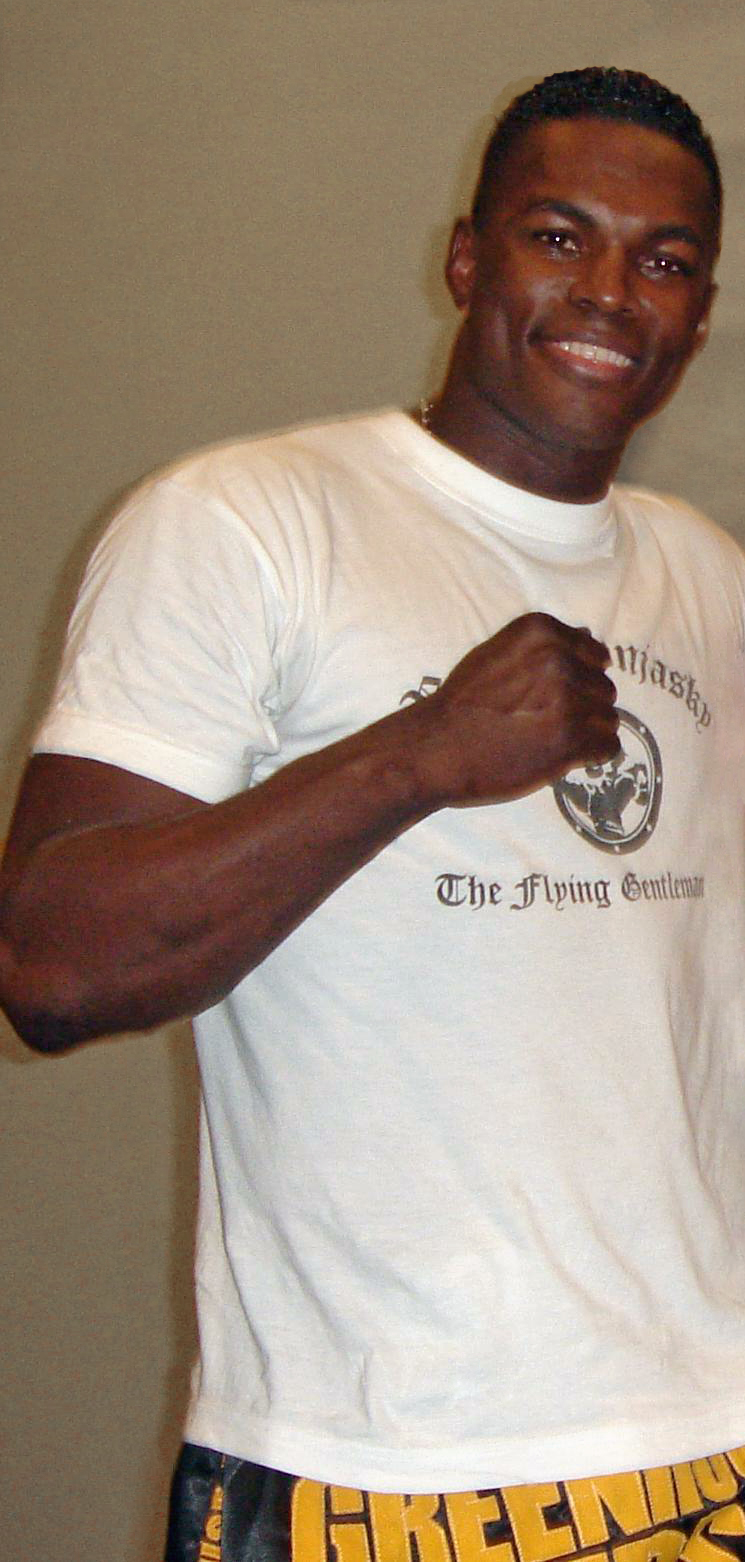 Kickboxer Remy Bonjaski poses for a photo with a fan (retouched version).